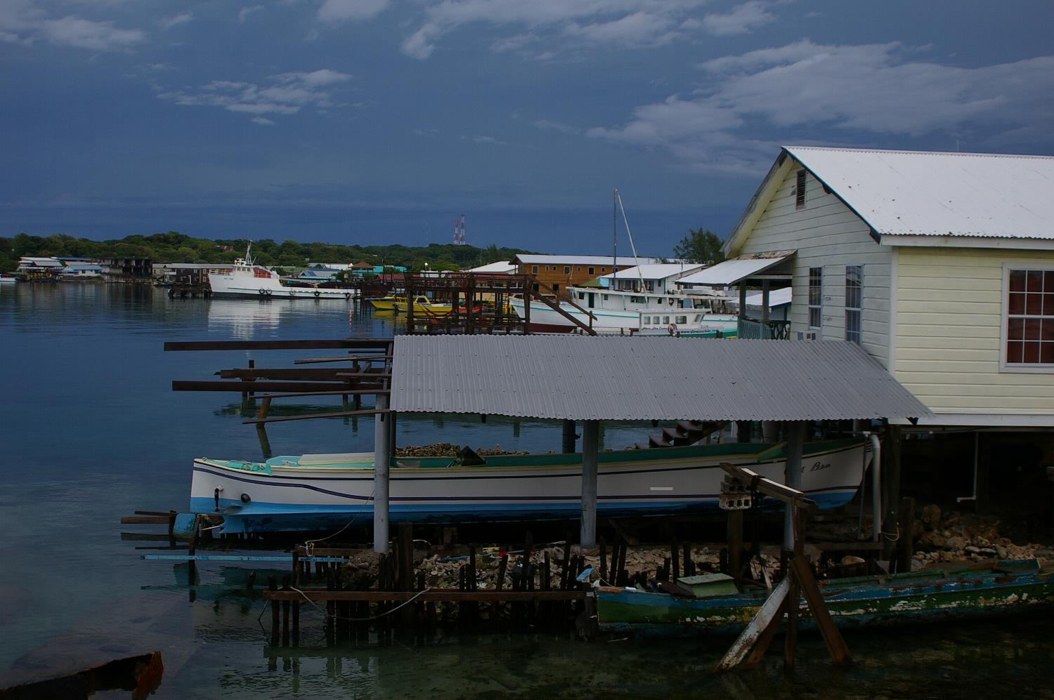 Factbook photos - obtained from a wide variety of sources - are in the public domain and are copyright free.